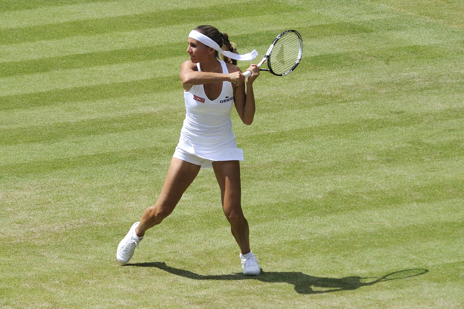 Gisela Dulko against Maria Sharapova in the 2009 Wimbledon Championships second round